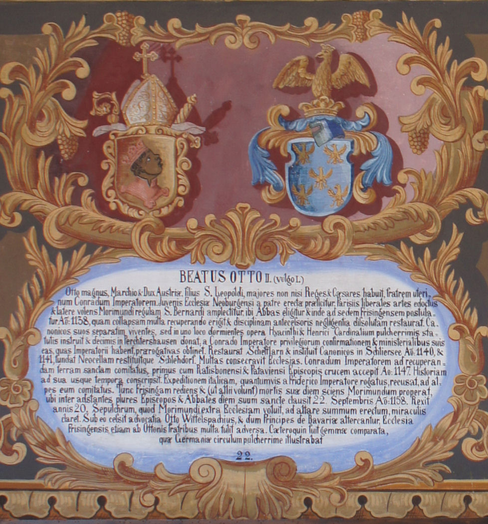 Wappentafel von Otto von Freising, Bischof von Freising, im Fürstengang zwischen Fürstbischöflicher Residenz und Freisinger Dom. Links das geistliche, rechts das persönliche Wappen, darunter ein lateinischer Text mit kurzer Biographie.